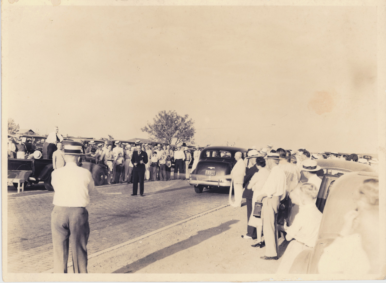 A new, brick-topped highway was opened between Mineral Wells and Weatherford in 1936. In the opening ceremony, J. Pat Corrigan is identified cutting the symbolic ribbon held by Allan Wallace and W.A. Ross. The new brick highway began at [NE?] 9th Avenue, and extended along East Hubbard Street. Brick paving the 21-mile stretch of road was laid entirely by hand by two black men whose names were never preserved for posterity.